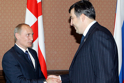 KAZAN. Meeting with Georgian President Mikhail Saakashvili.